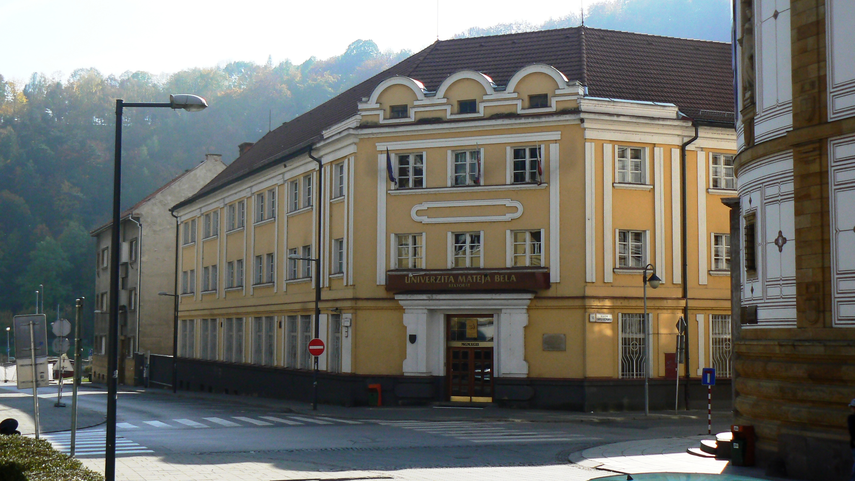 The Rectorate of Matej Bel University of Banska Bystrica, Slovakia